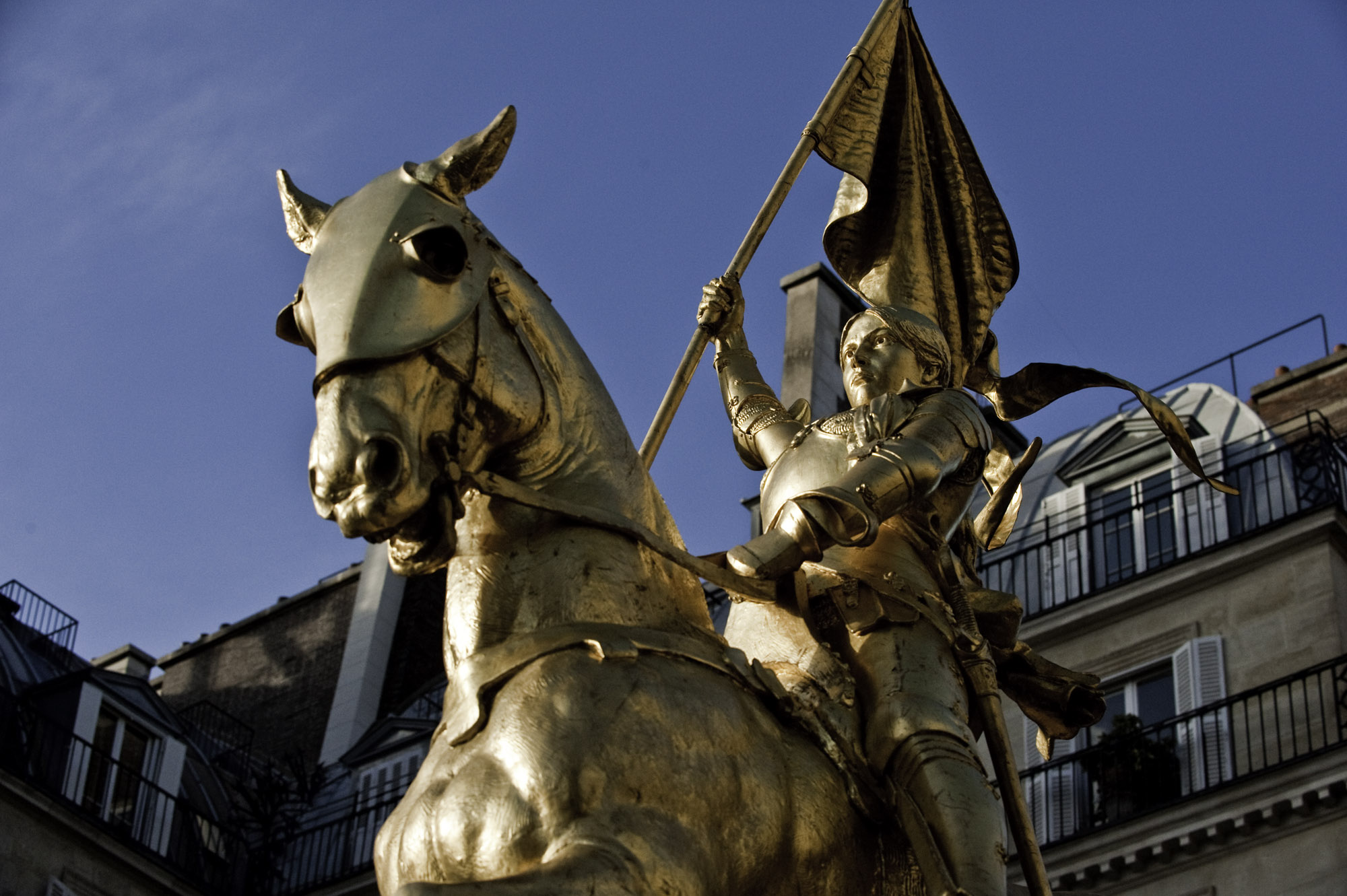 Statue of Jeanne d'Arc in Paris, Rue de Rivoli 2010